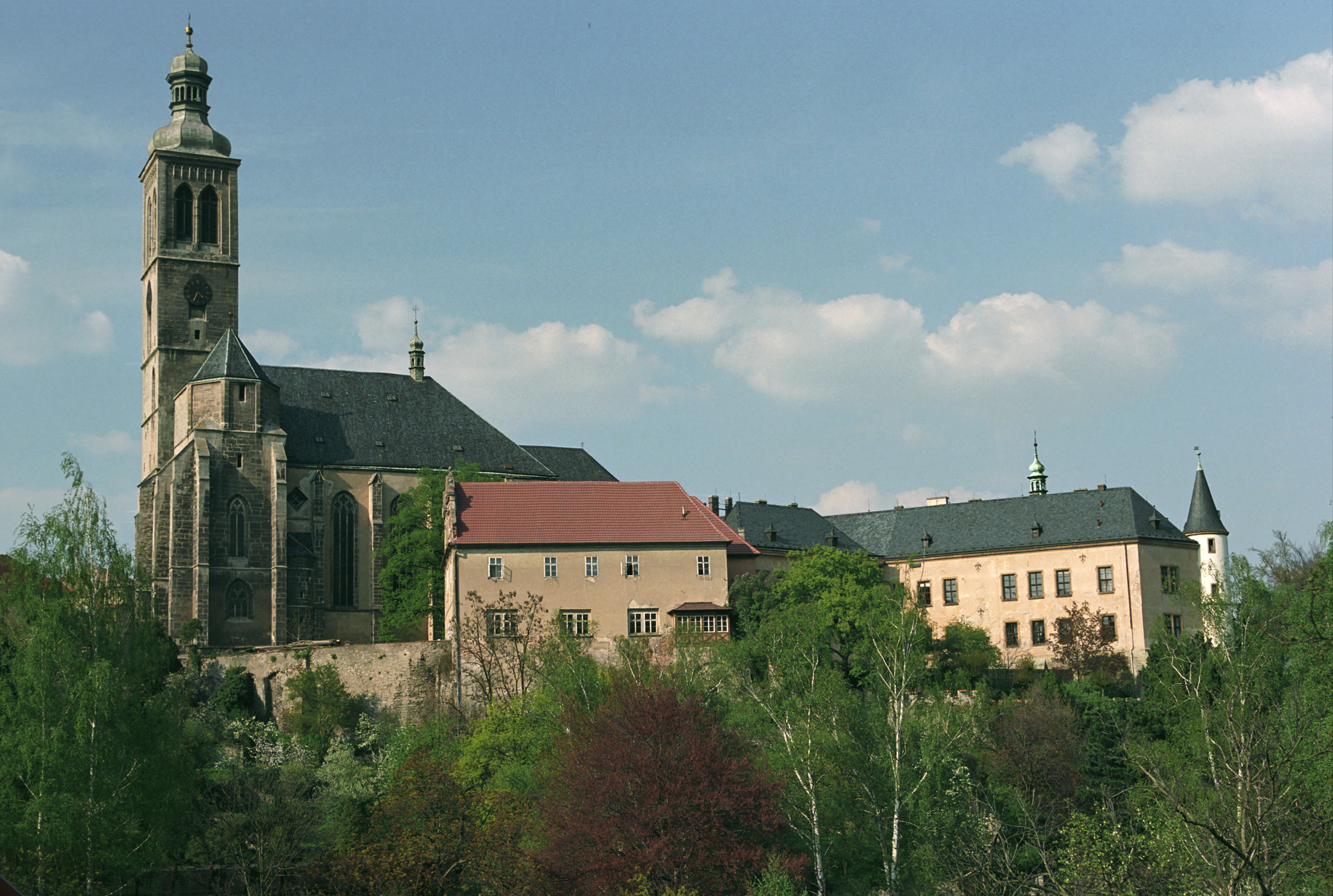 Kutná Hora, St. James Church and Italian court